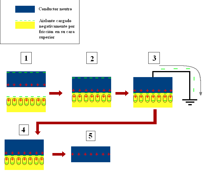 Diagram showing how an electrophorus is charged.